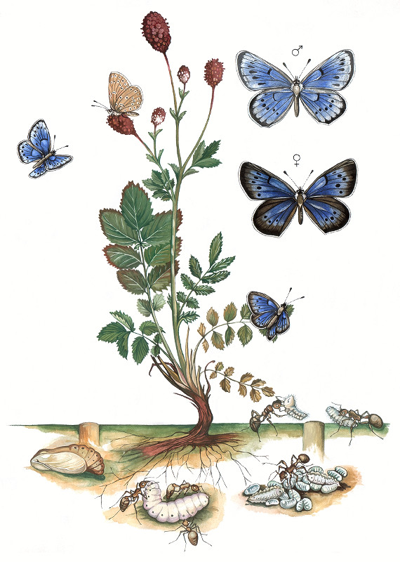 The image of Phengaris teleius showing some parts of their life cycle